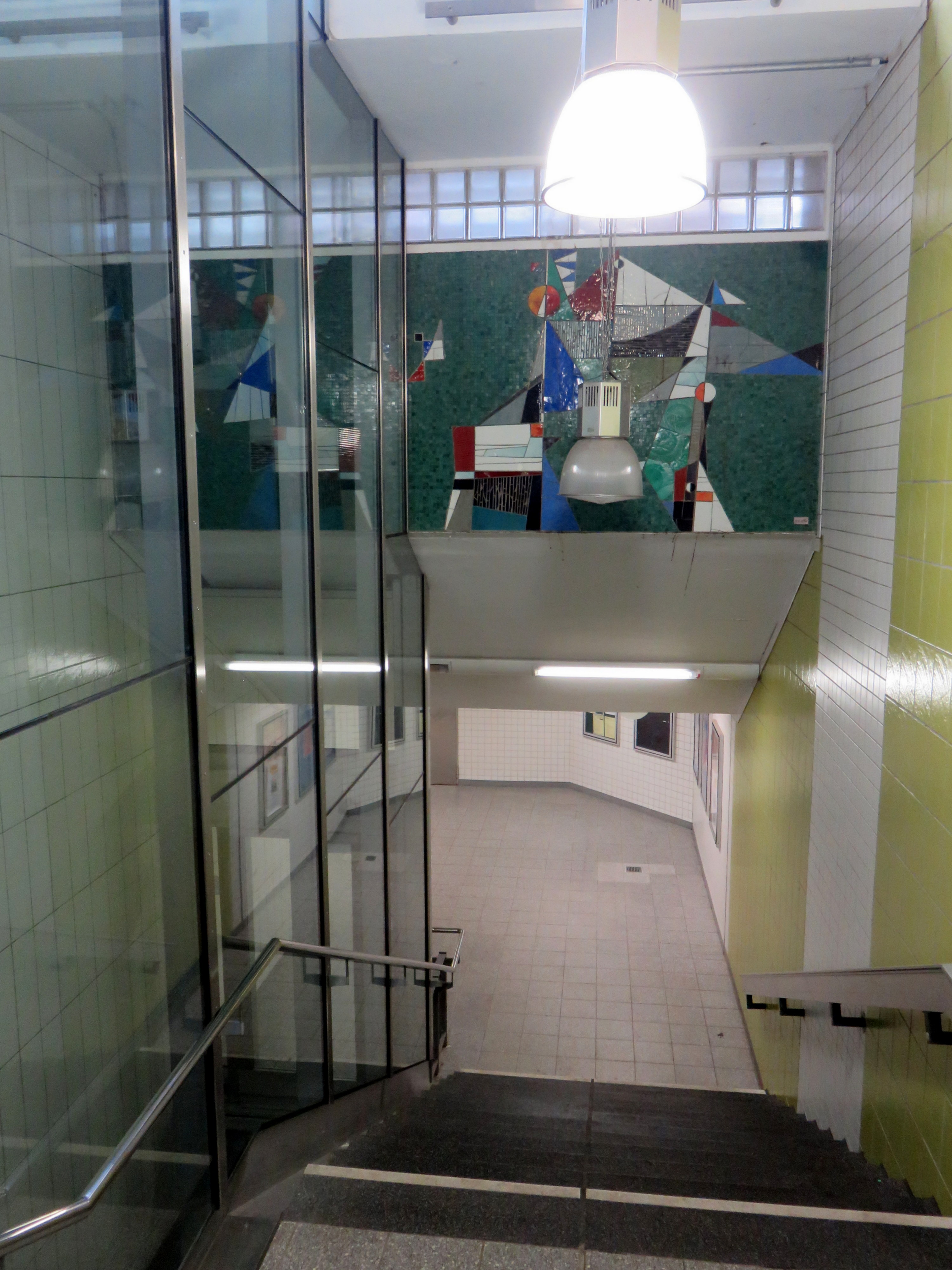 Station Kiwittsmoor of Metro line U1 in Hamburg-Langenhorn.